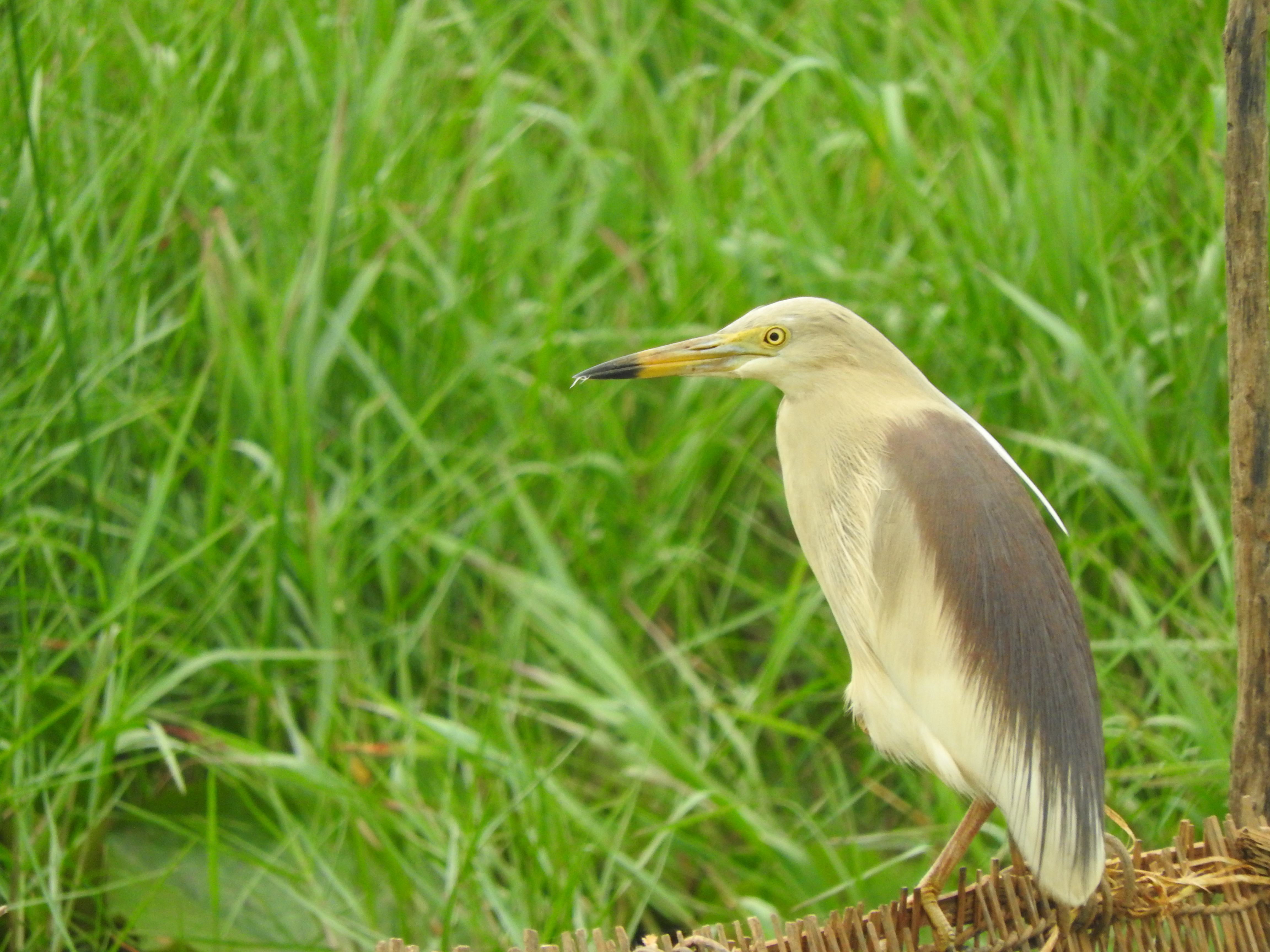 Indian Pond Heron in Breeding plumage.